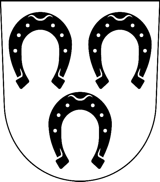 A coat of arms of Szare, gmina Milówka, Poland, based upon a coat of arms of Wappen Eisenberg (Pfalz).